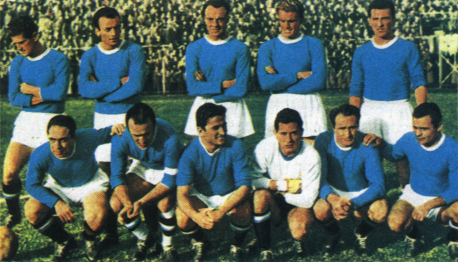 A line-up of A.C. Napoli in the 1953–54 season. From left to right, standing: J. Vinyei, L. Comaschi, G. Granata, H. Jeppson, G. Castelli; crouched: B. Pesaola, A. Amadei (captain), G. Vitali, O. Bugatti, B. Gramaglia, G. Ciccarelli.